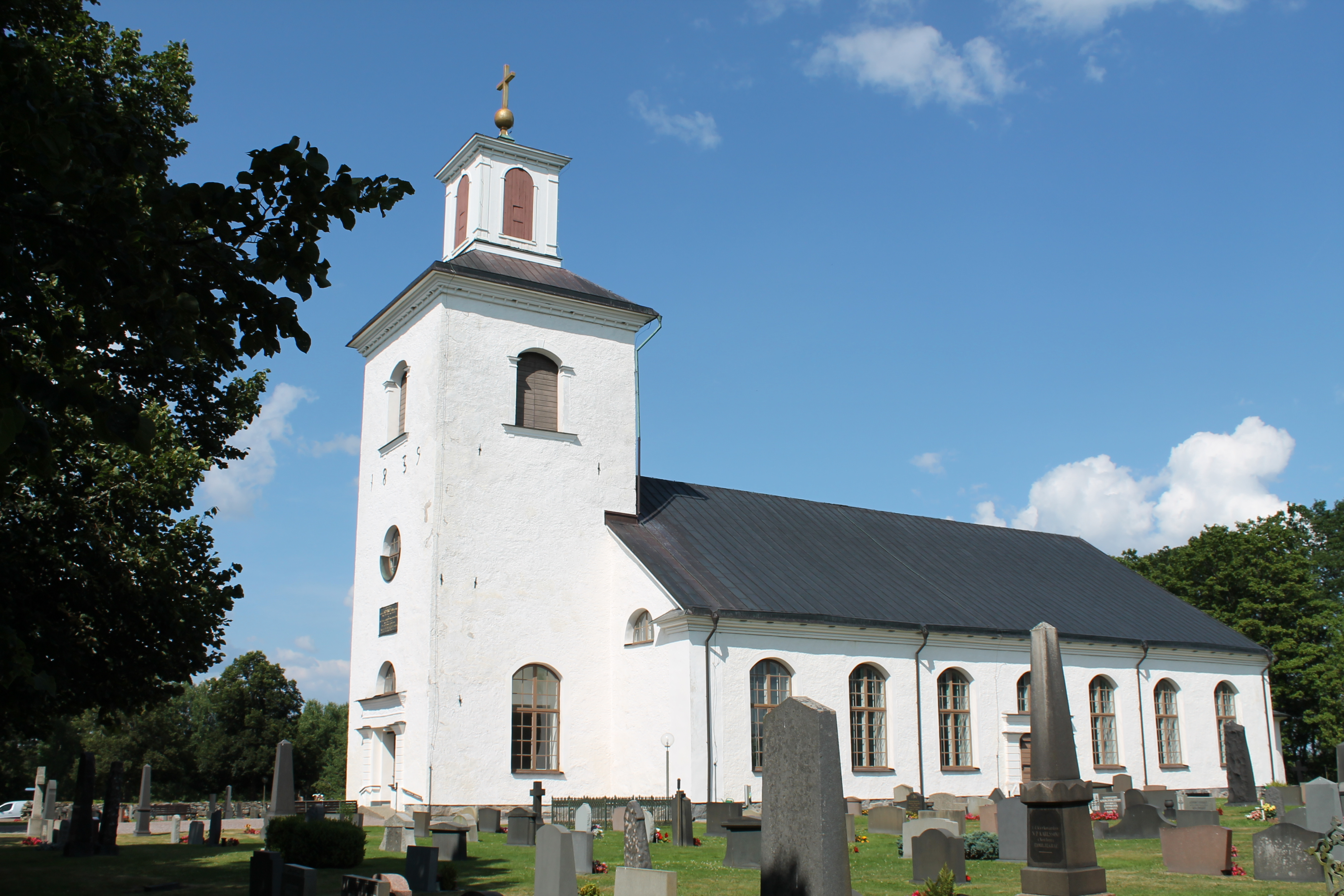 Hjörtsberga Church.Exterior